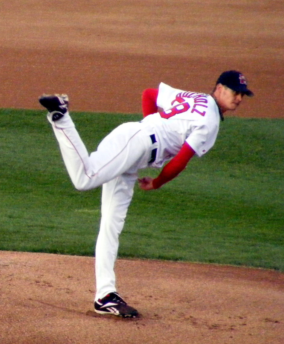 Clay Buchholz